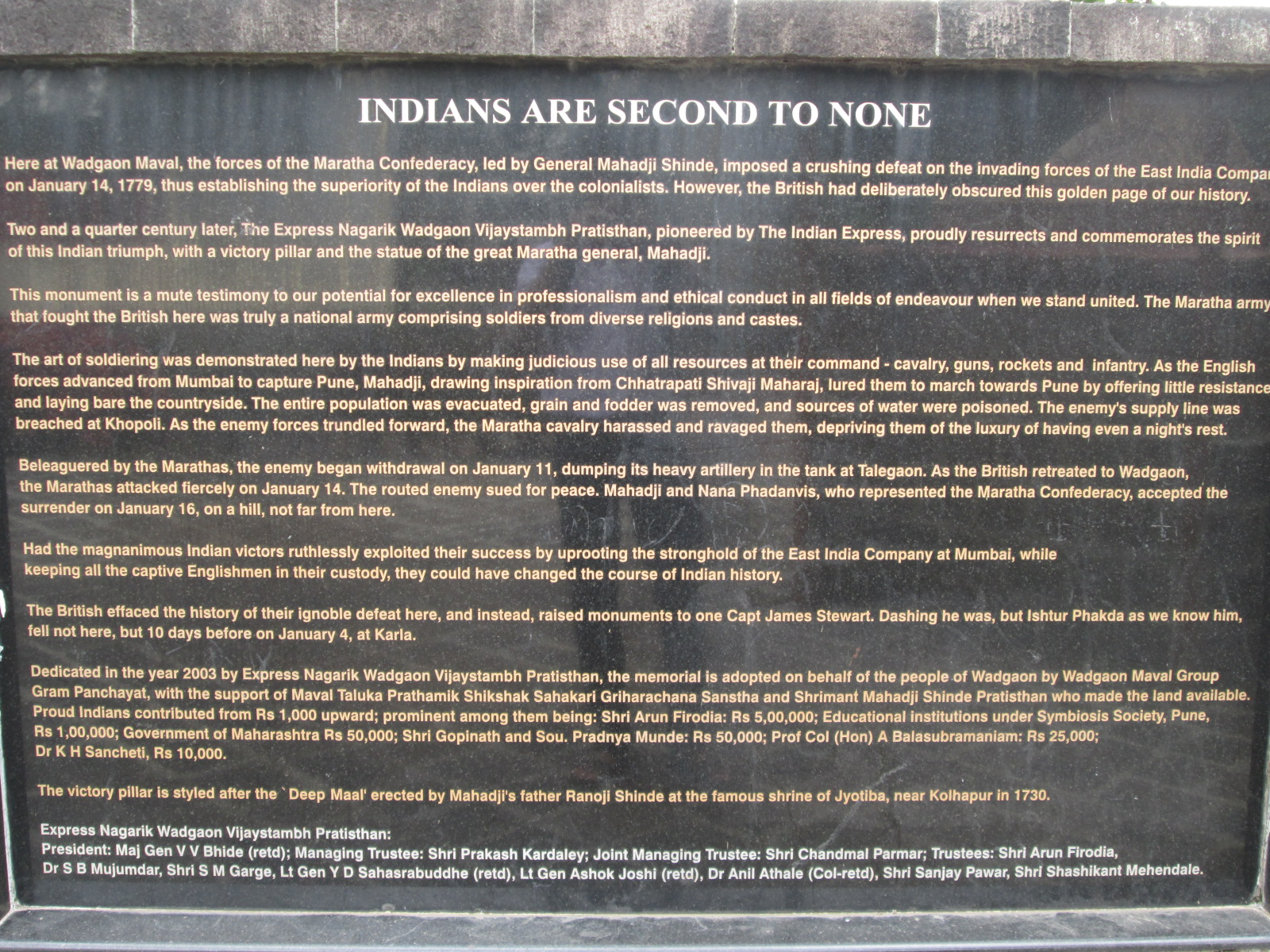 An information plaque describing Indian victory over British forces in First Anglo-Maratha War